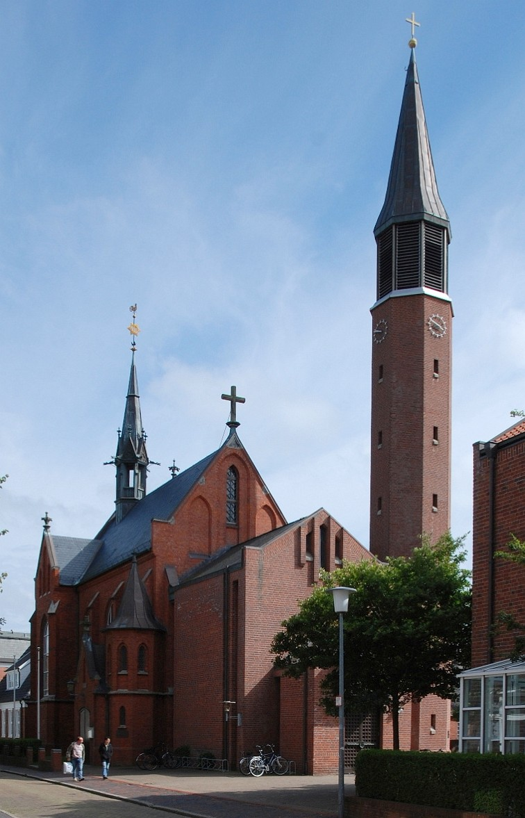 Catholic Church "Maria Meeresstern" on the island of Borkum.